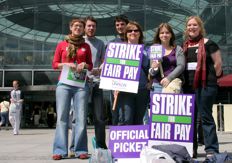 Library workers on the first day of their 48 hour strike against a derisory pay offer which will lower their already difficult standard of living. They are in good spirits here.